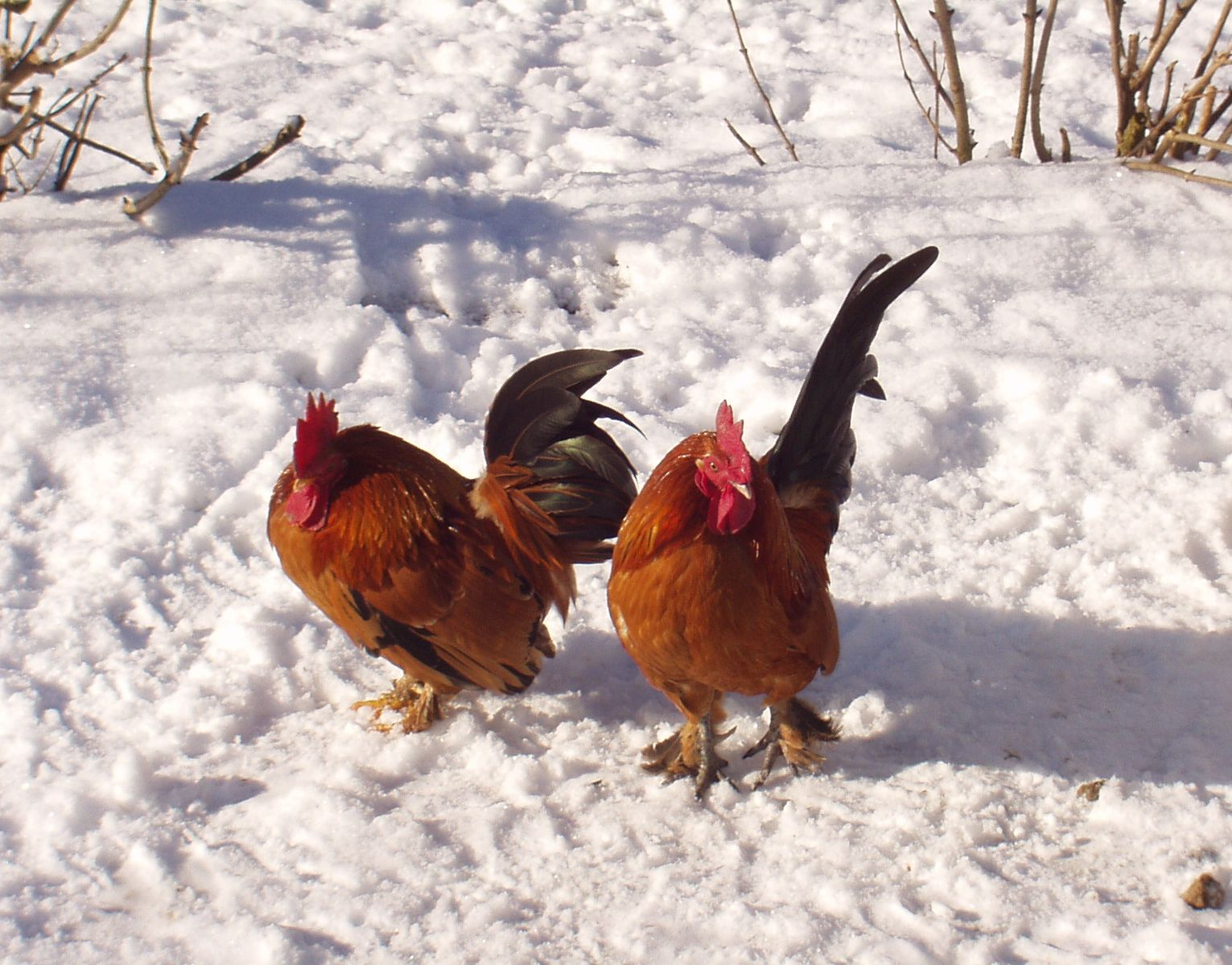 This image shows two cocks (Gallus gallus) in the snow, Tierpark Fauna, Solingen